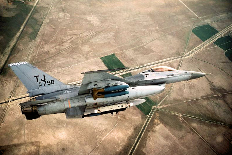 An air-to-air right side view of USAF F-16A block 15 #81-0790 from the 612th TFS carrying Mark-82 500-pound practice bombs on the wing pylons and an AN/ALQ-131 ECM pod on the centerline. The aircraft is over the Konya Range on May 7th, 1986. The aircraft was retired to AMARC as FG0368 Jun 26, 1996. Still on AMARC inventory Jan 15, 2008 [USAF photo by SSgt Fernando Serna]